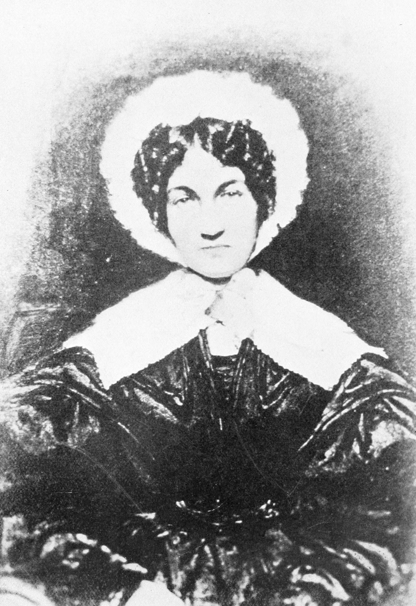 Image from scanned version of James Audubon Journals, published in 1899 and in the Public Domain from Image has been cropped and sepia tone removed.